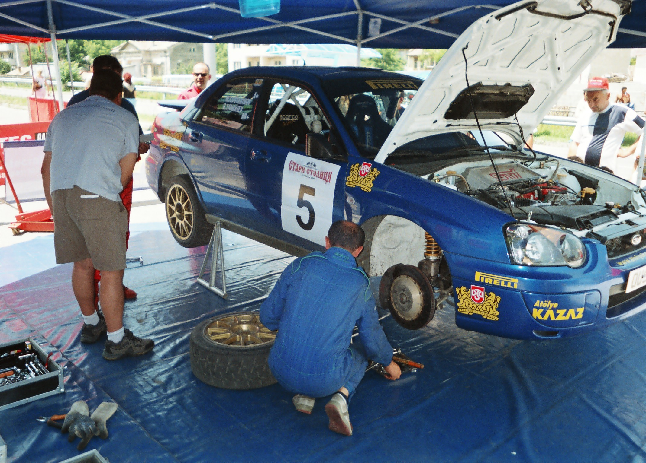 The bulgarian driver Martin Markov on "Stari Stolitsi" Rally in 2006.